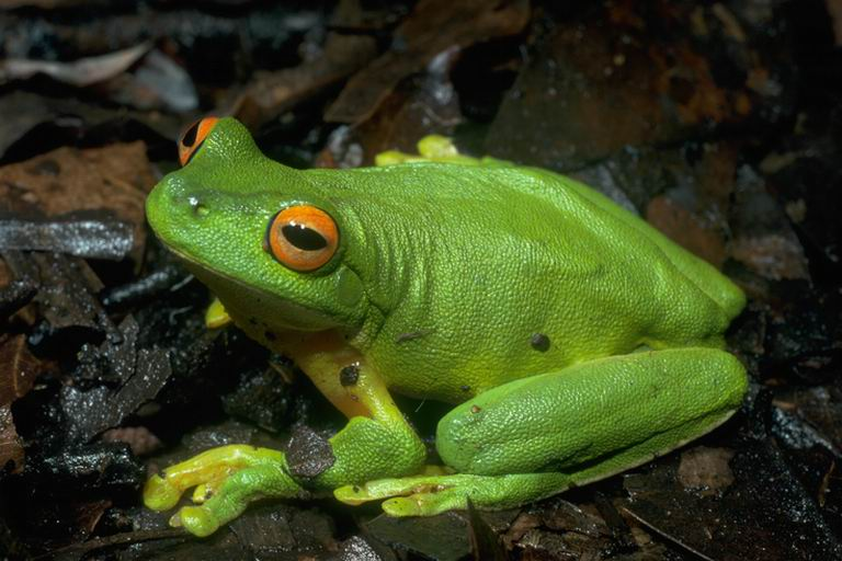 Litoria xanthomera